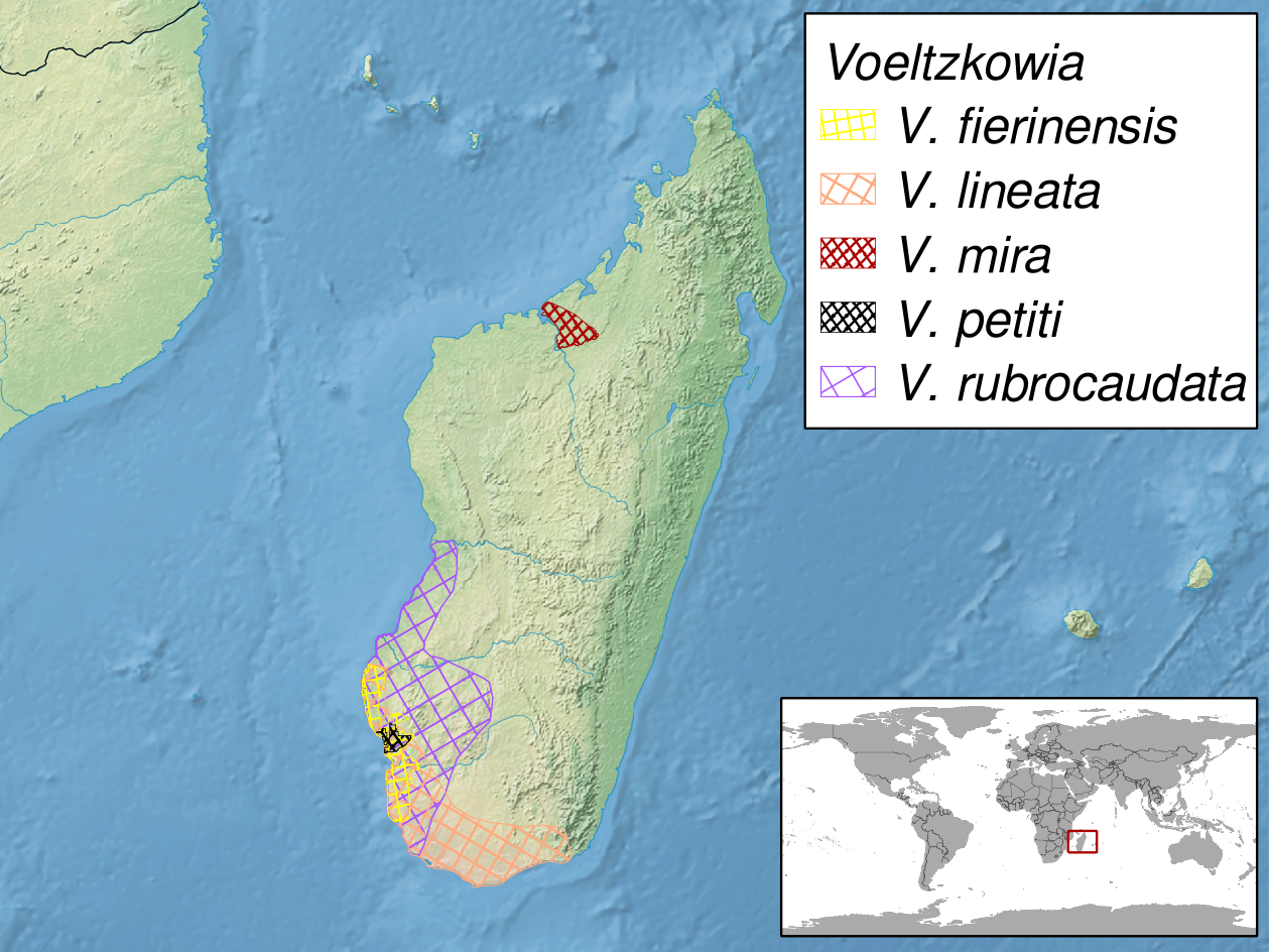 geographic distribution of Voeltzkowia. Included species according to RDB: V. fierinensis, V. lineata, V. mira, V. petiti and V. rubrocaudata